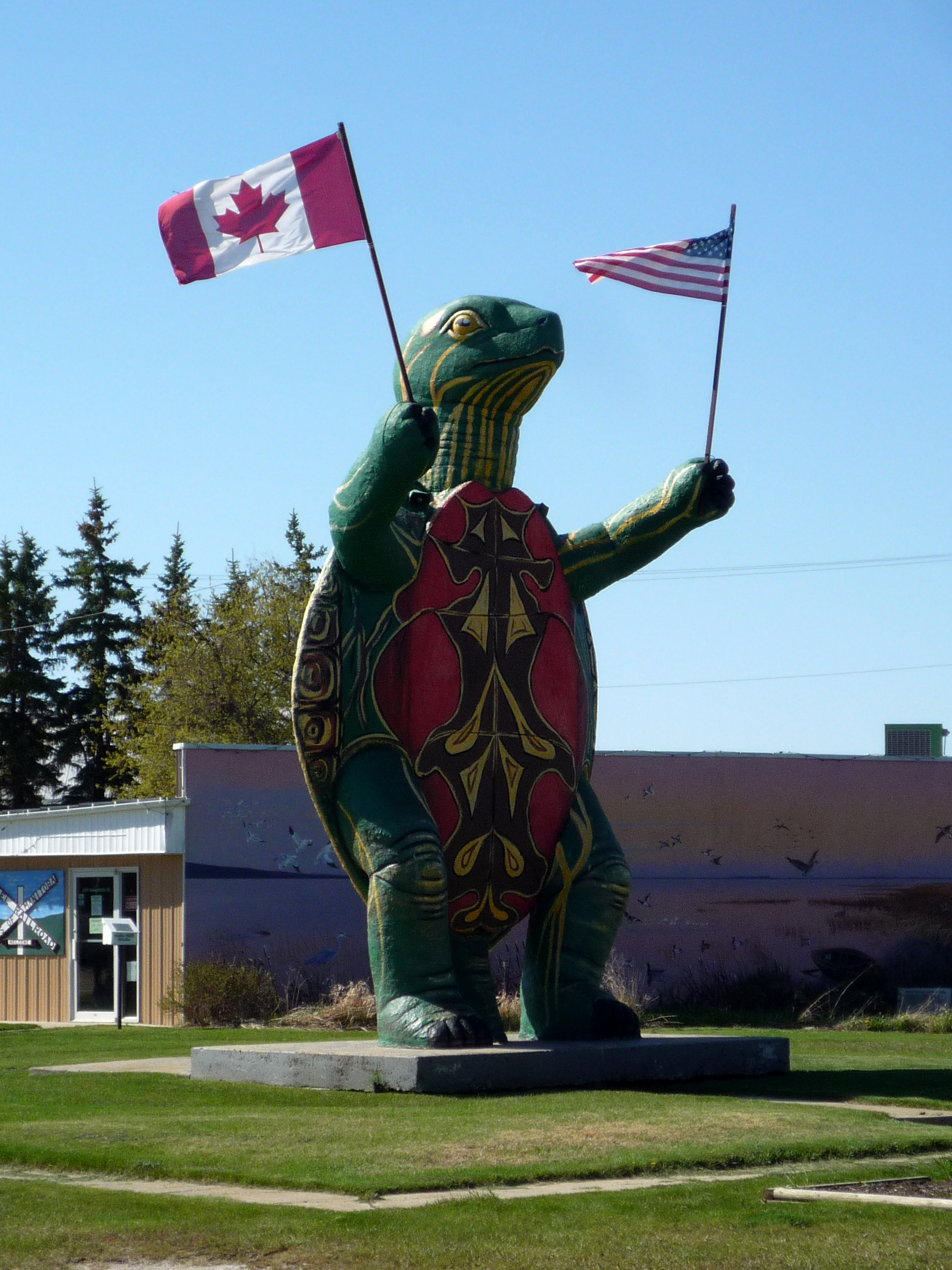 "Tommy the Turtle", a 28-foot-tall, 10,000-lb statue in Boissevain, Manitoba.